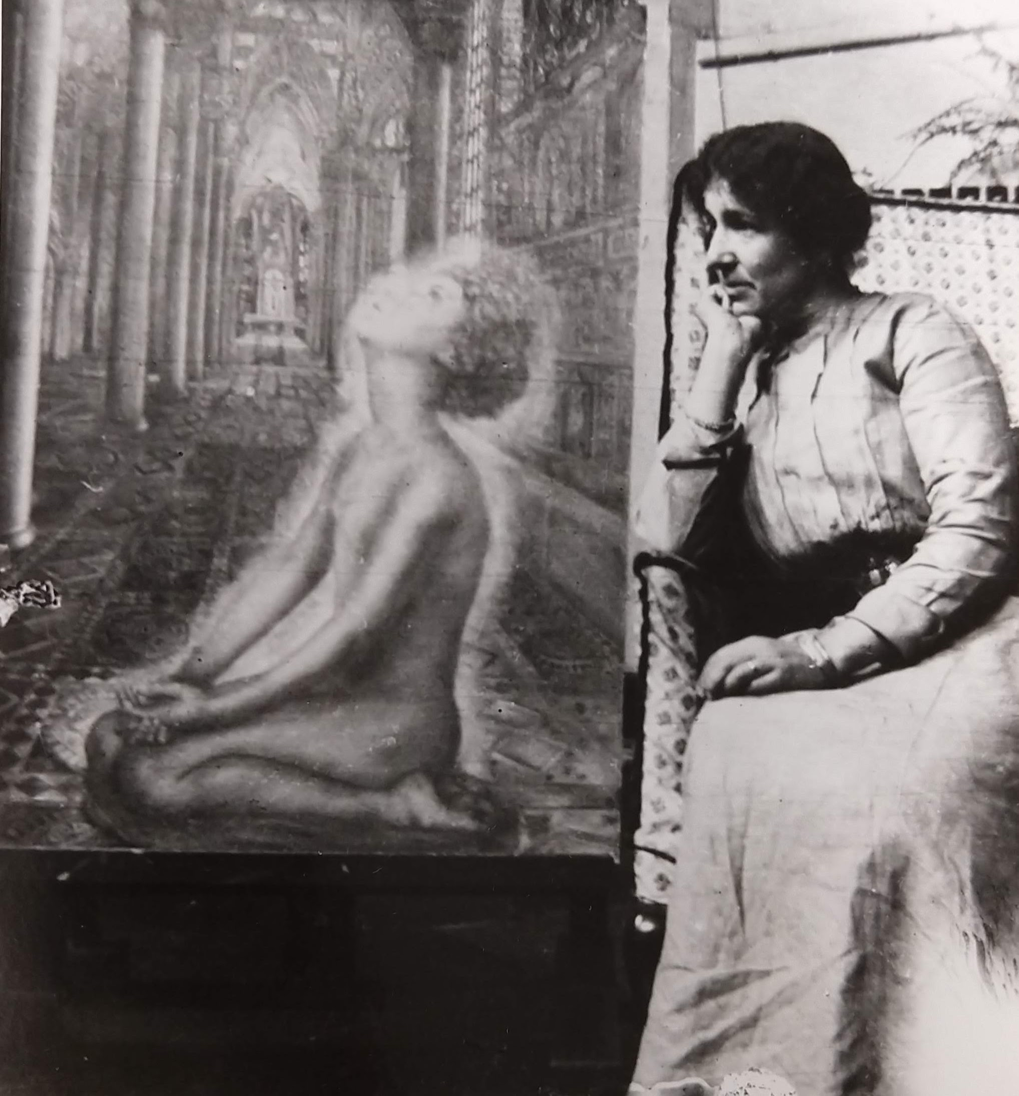 Photograph of artist da Loria Norman, c. 1929, with her painting "Child of the Ages." From the Da Loria Norman Papers, 1886-1980. Archives of American Art, Smithsonian Institution.